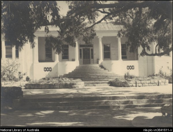 Building of Frensham School, 1934. Image title:Front entrance, Frensham School, Mittagong, 1934